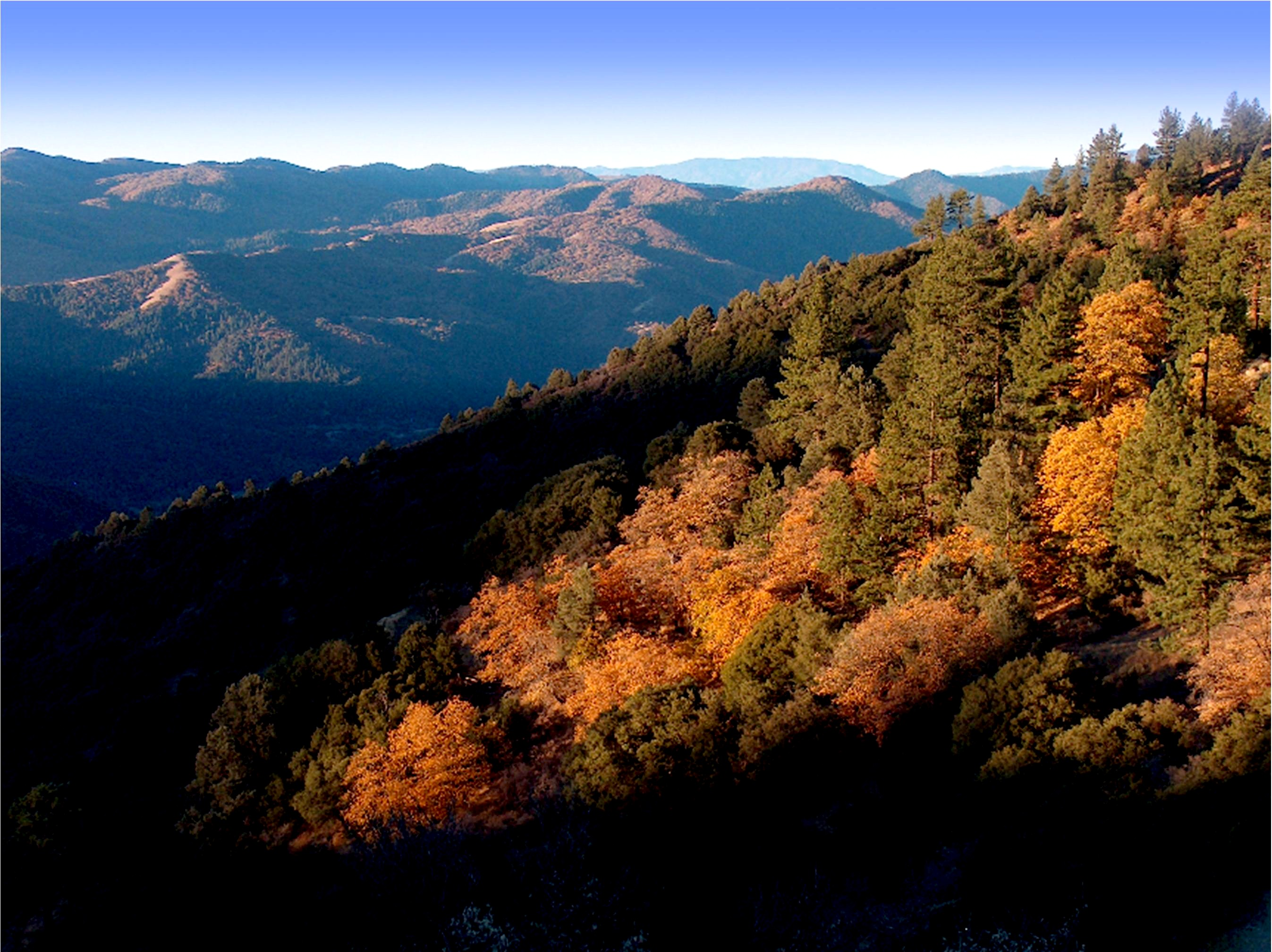 Overlooking the eastern half of Tejon Ranch from the Tehachapi Crest of the Tehachapi Mountains - one of the Transverse Ranges. Autumn in the California mixed evergreen forest landscape. Frazier Mountain of the San Emigdio Mountains, within the Los Padres National Forest, is in the background.